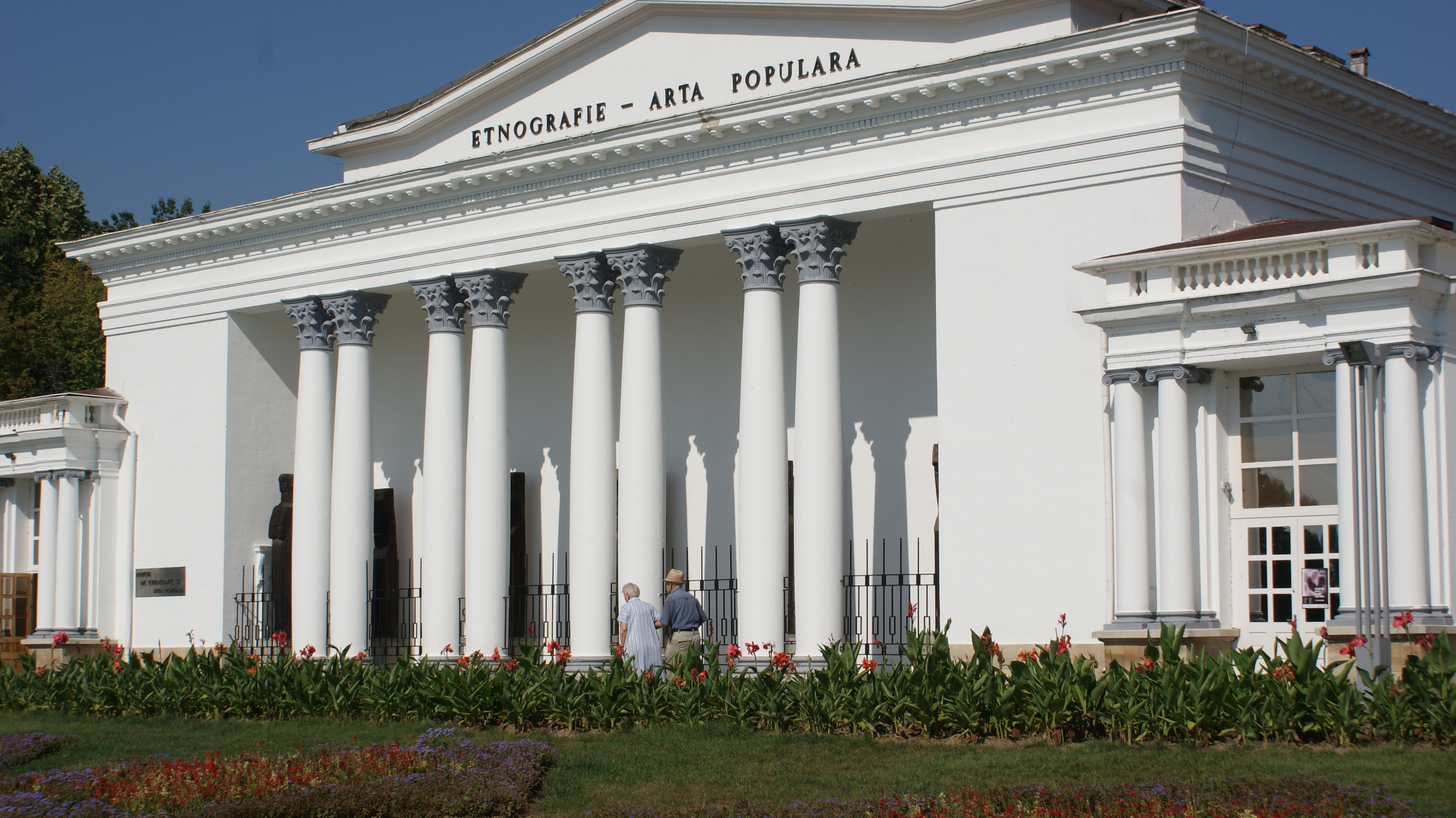 Ethnographic Museum in Baia Mare - central part of the facade